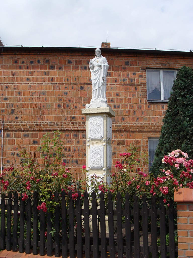 Wyrzeka, roadside shrine.